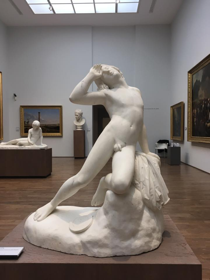 Death of Hyacinthe by Antoine Étex, 1829. Fine Arts museum of Angers, France.